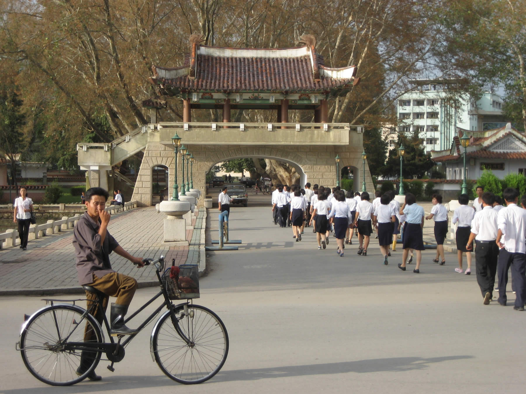 A park gate near the Folklore Village in Sariwon south of Pyongyang, Democratic People's Republic of Korea.